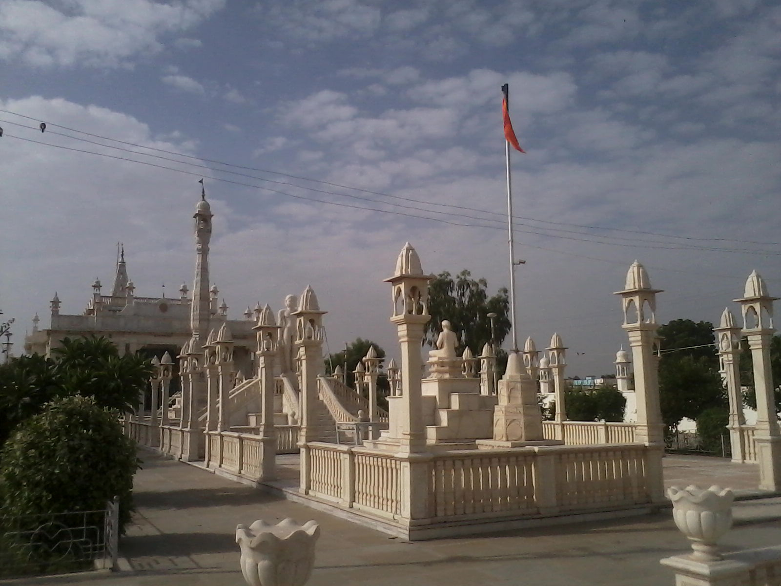 Adinath Digamber Jain Temple Ladnun, Marwad